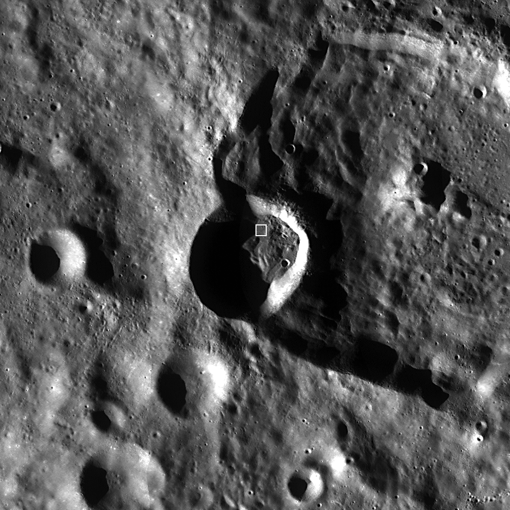 Lunar crater Slipher and satellite crater Slipher S. LROC image.